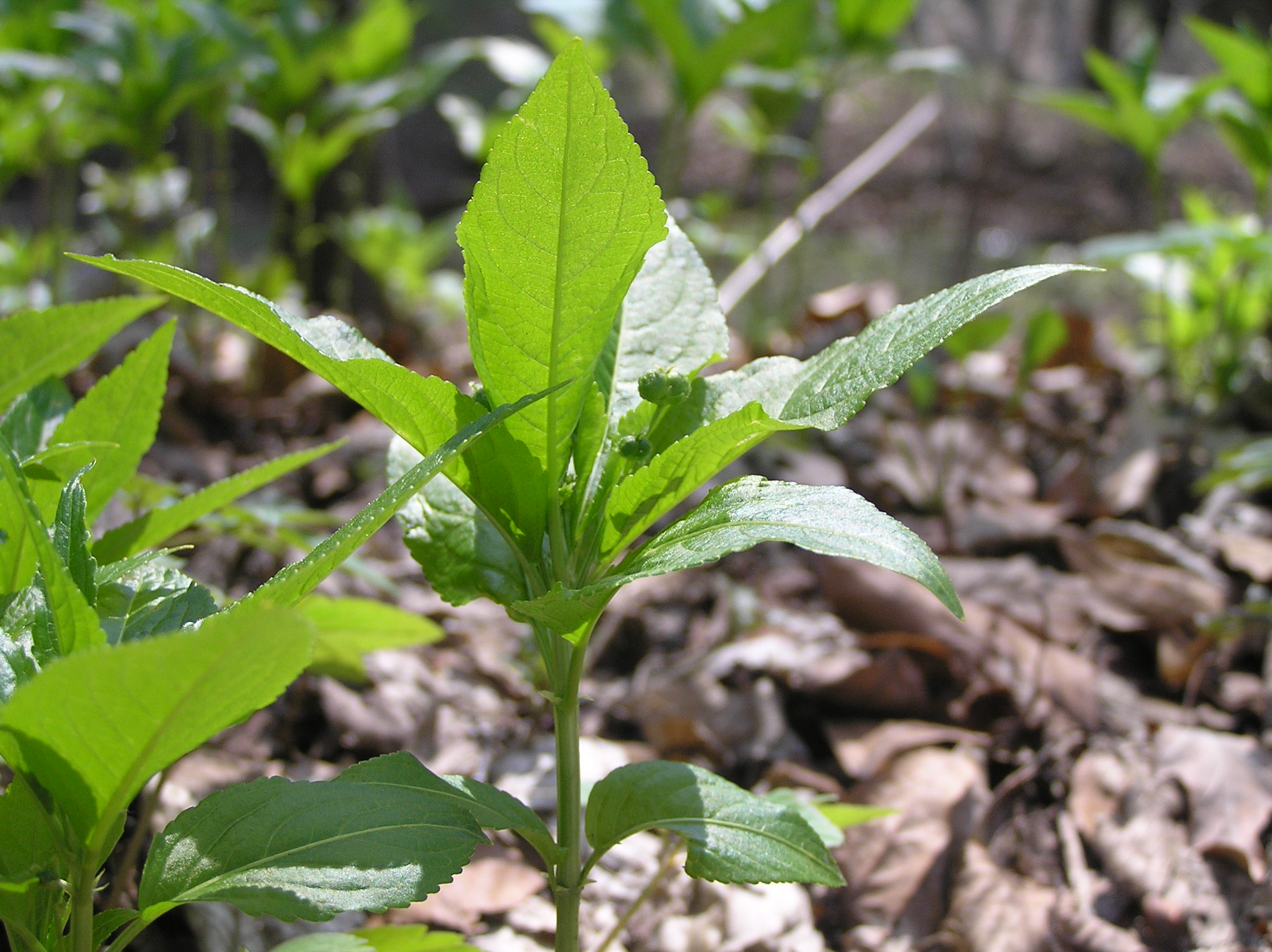 Mercurialis perennis, Choceň, Czech Republic